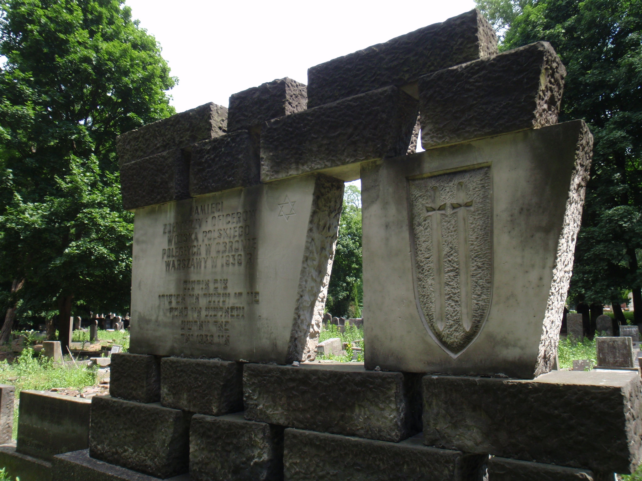 Monument of Jews - soldiers of Polish Army - KIA during September Campaign 1939 at Jewish cemetery in Warsaw